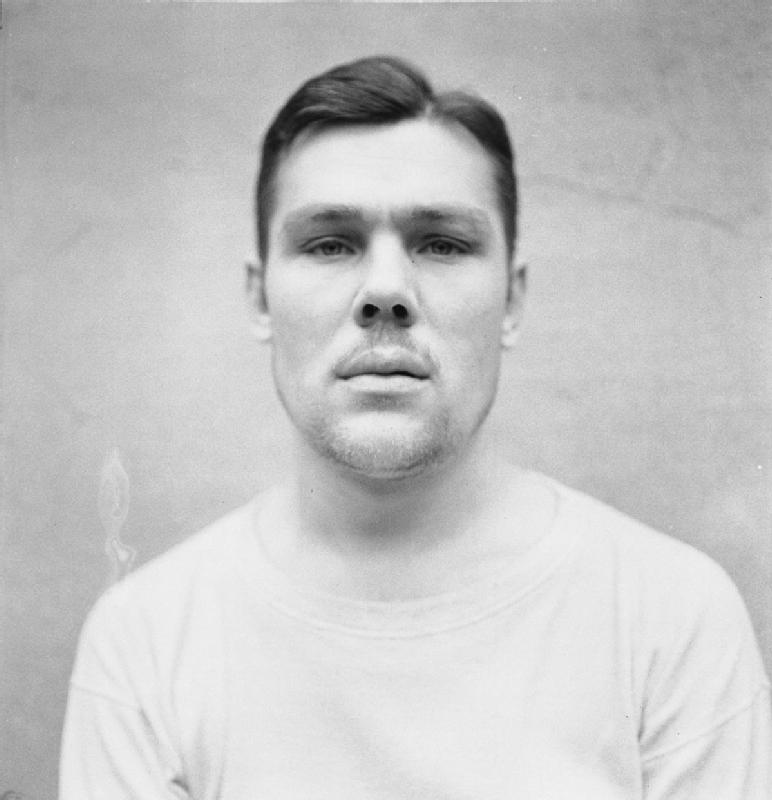 Vladislav Ostrovski: sentenced to life imprisonment. THE LIBERATION OF BERGEN-BELSEN CONCENTRATION CAMP 1945: PORTRAITS OF BELSEN GUARDS AT CELLE AWAITING TRIAL, AUGUST 1945 WAR OFFICE SECOND WORLD WAR OFFICIAL COLLECTION